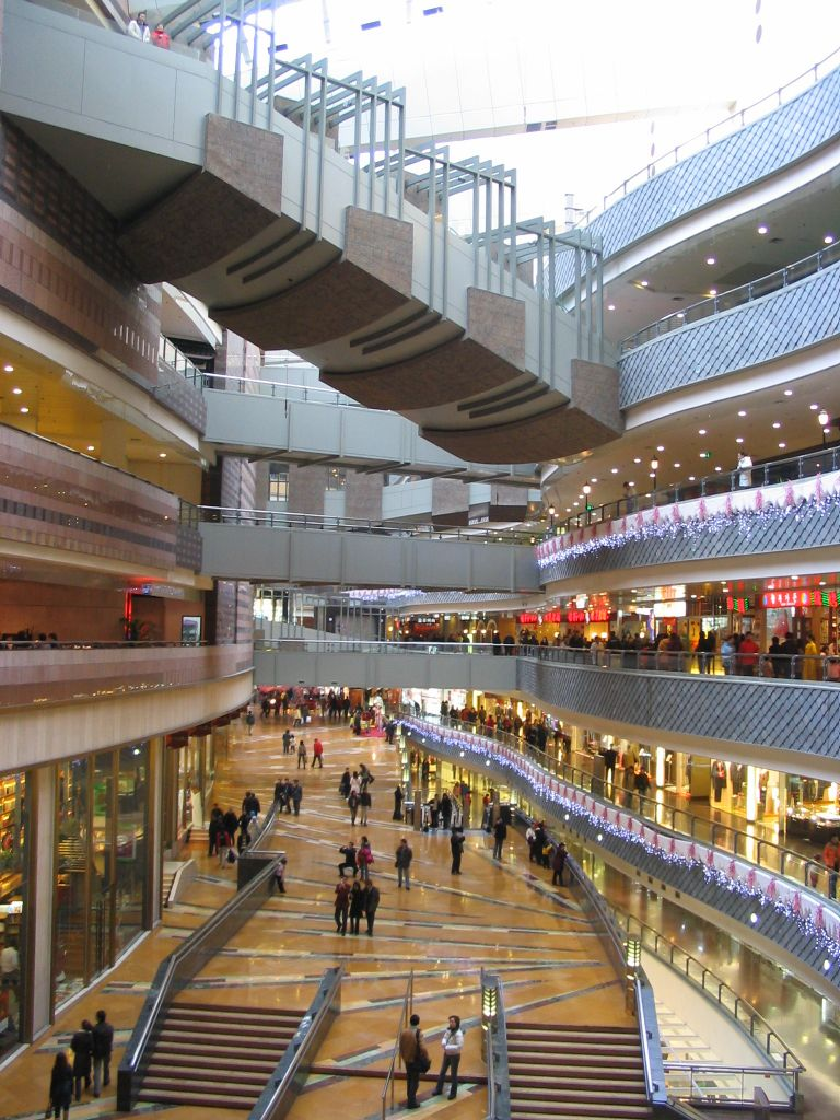 正大廣場 Super Brand Mall